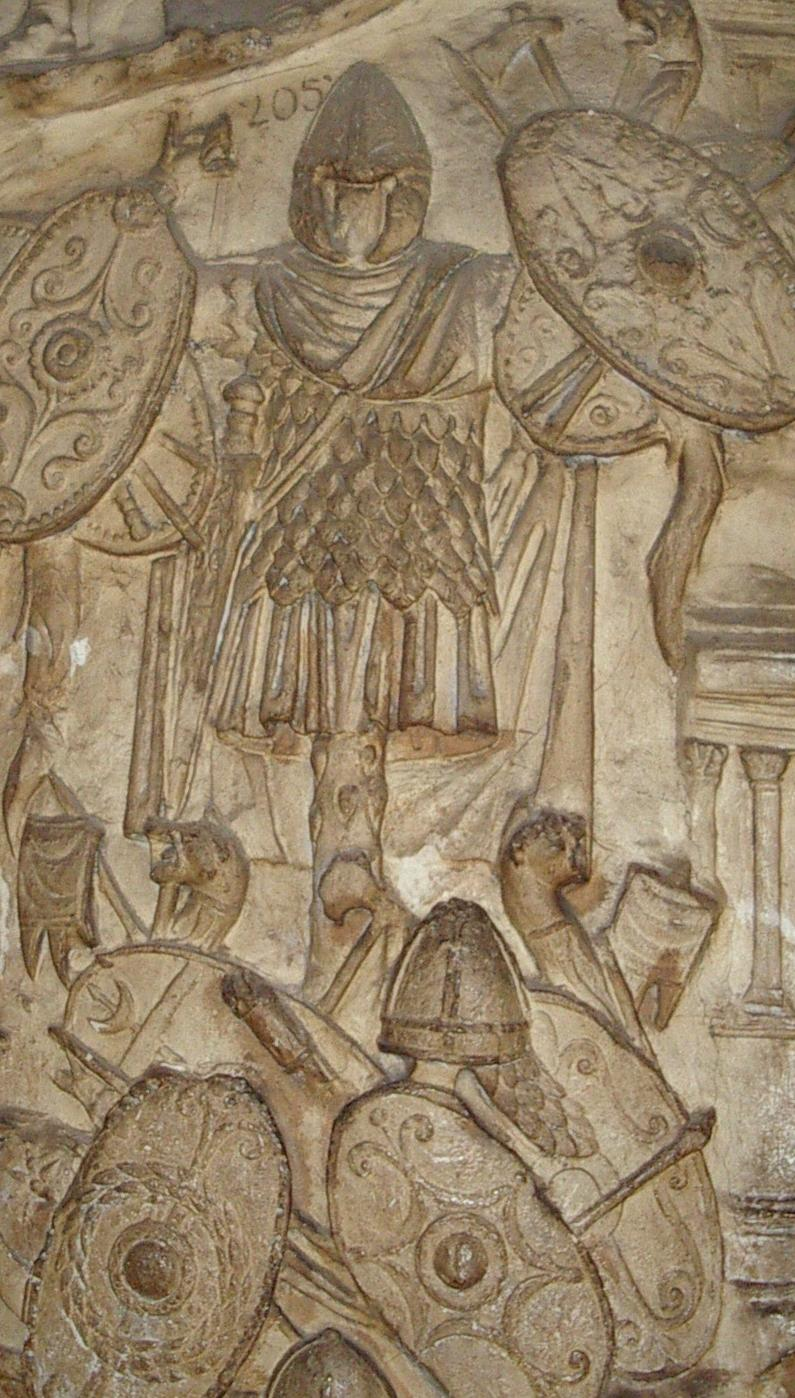 This image is a photograph of the cast of Trajan's column located in the Victoria and Albert museum London.